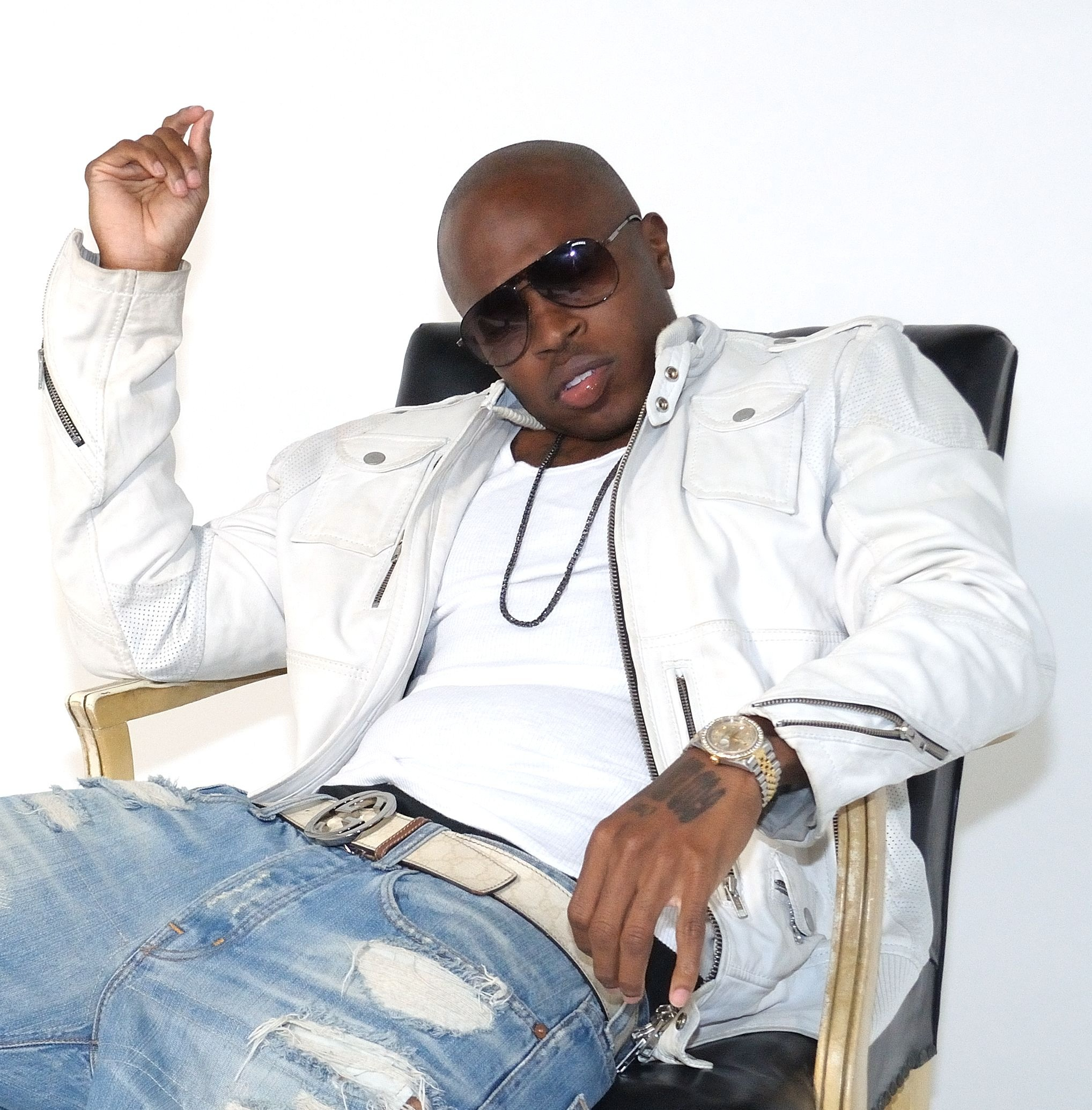 Portrait of rapper and ghostwriter Smitty.